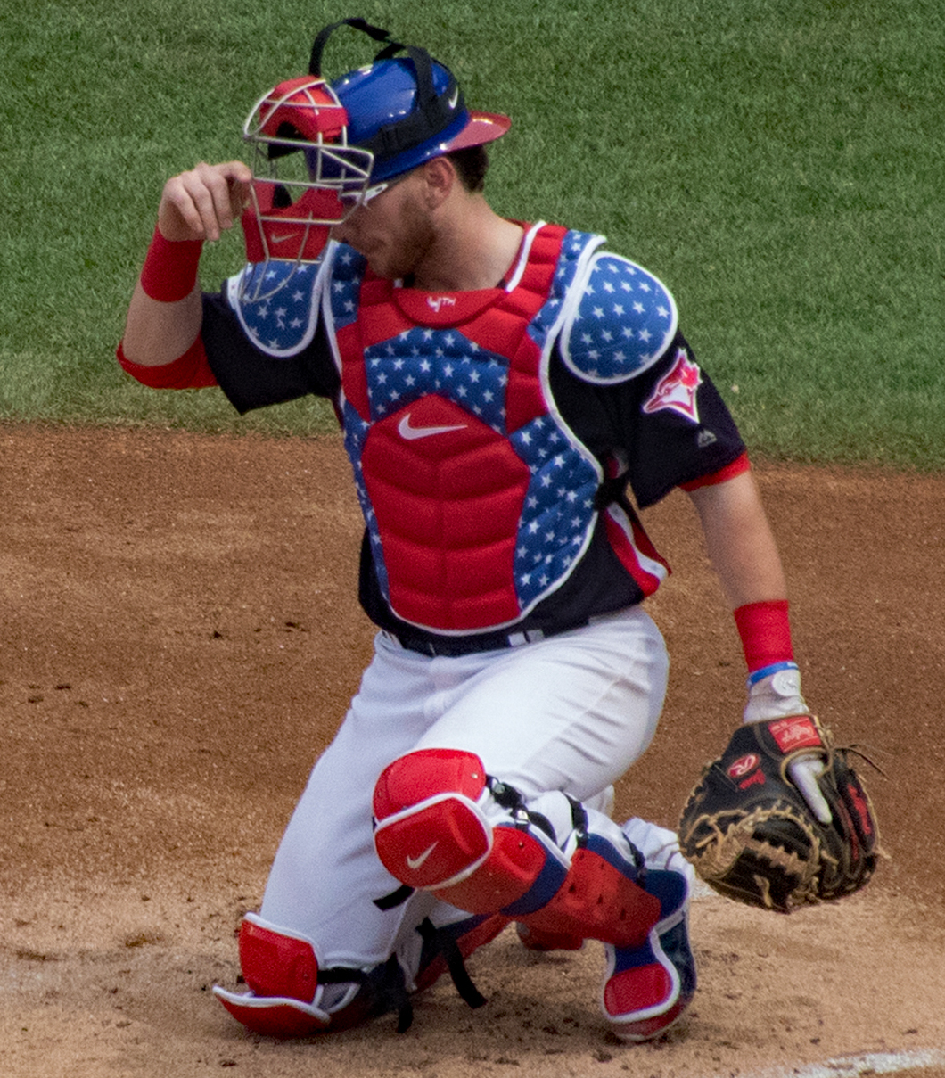 Seuly Matias crosses the plate in front of Danny Jansen during the 2018 MLB Futures Game